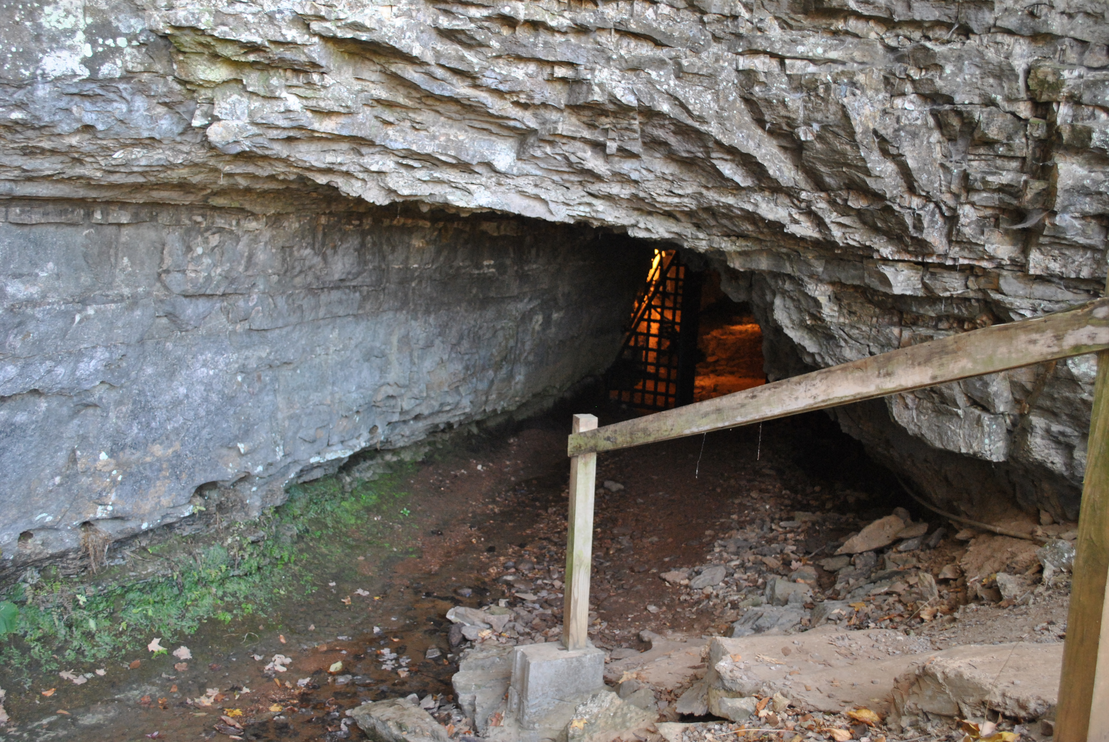 Bell Witch Cave, 430 Keysburg Rd. Adams